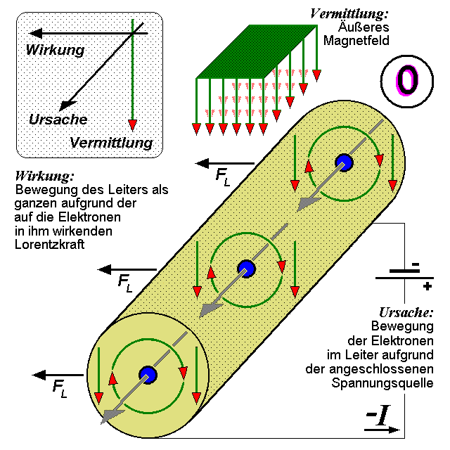 Lorentz forces on an electric conductor in a magnetic field: (1) if a current flows through the conductor